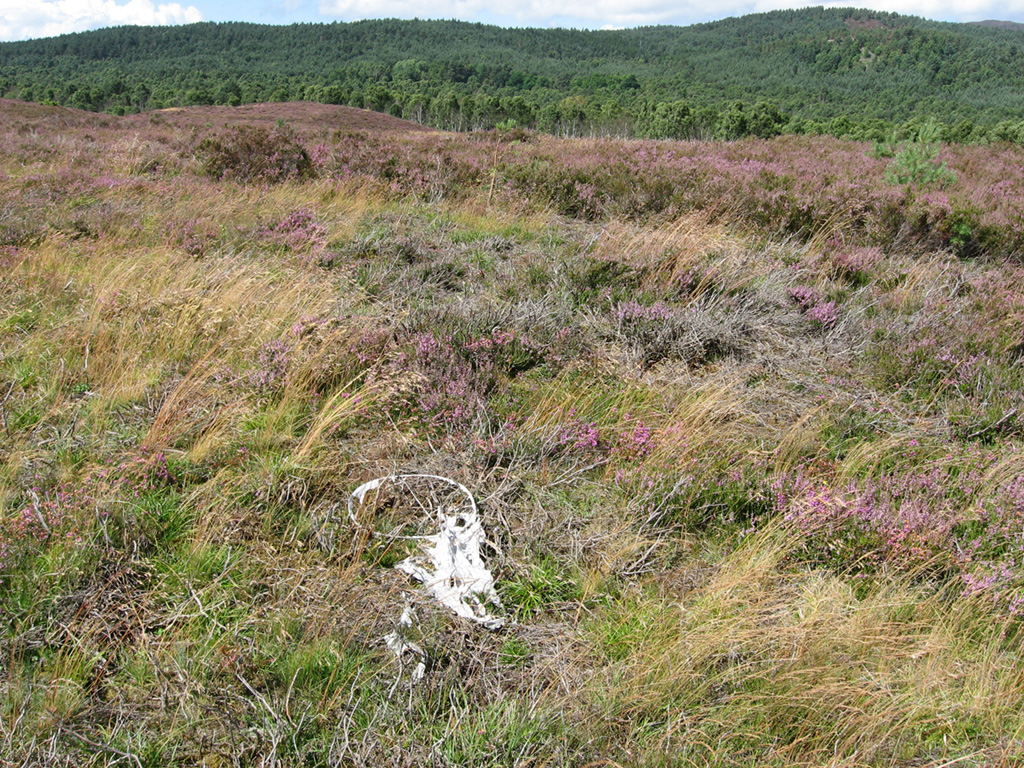 Free to use if credit given to Scottish Natural Heritage. A chinese lantern found at Muir of Dinnet National Nature Reserve in Scotland.